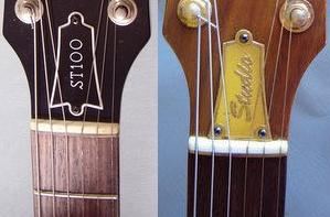 Ibanez Studio series truss rod covers